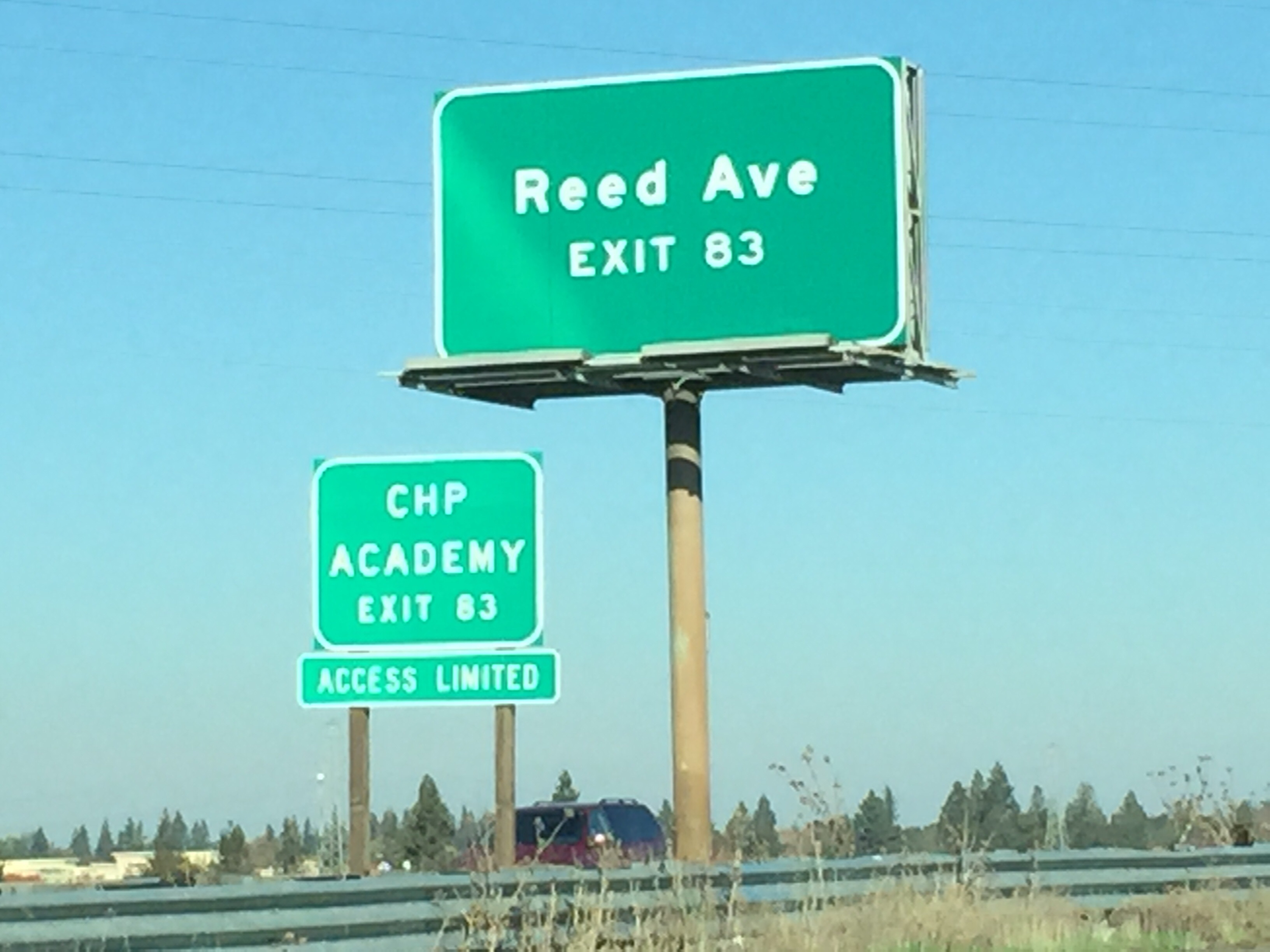 This is the I-80 East bound freeway sign that indicates the upcoming Reed Ave. interchange that is the Eastern most terminus of the unmarked section of California State Route 84.